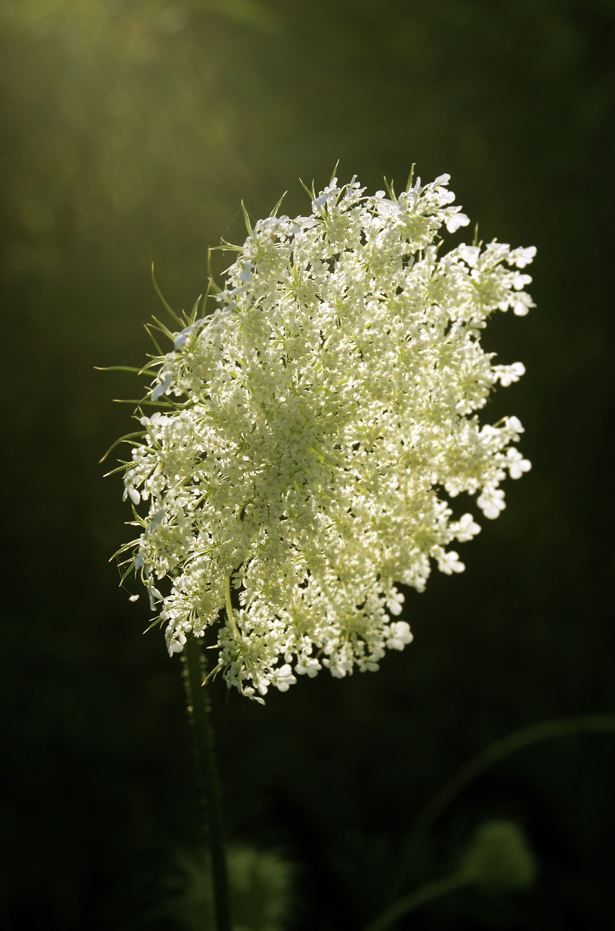 A photo of the wild carrot.